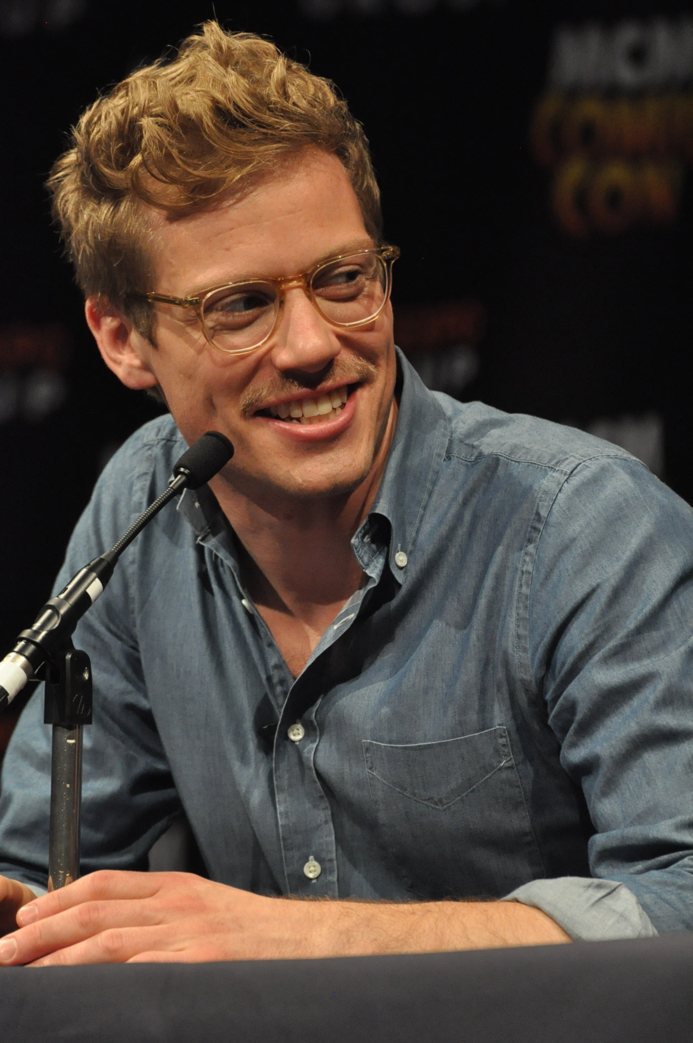 DSC_0793 MCM London Comic Con, NCIS Panel with Barrett Foa and Renée Felice Smith.